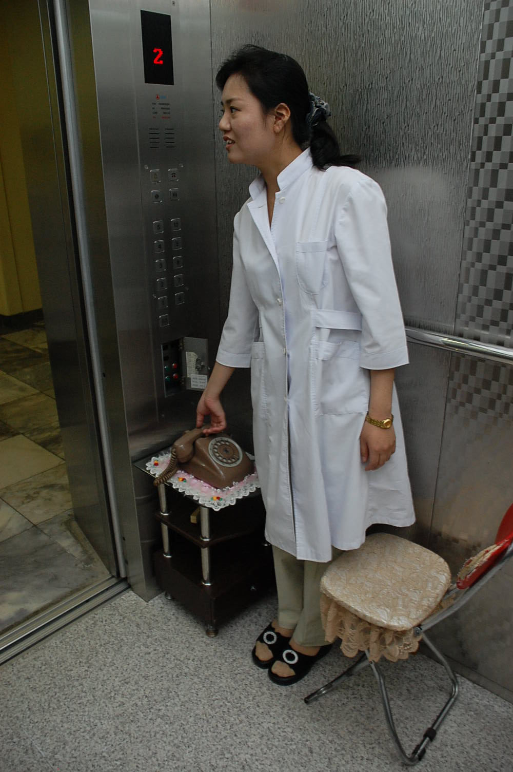 Trip to North Korea in June, 2008